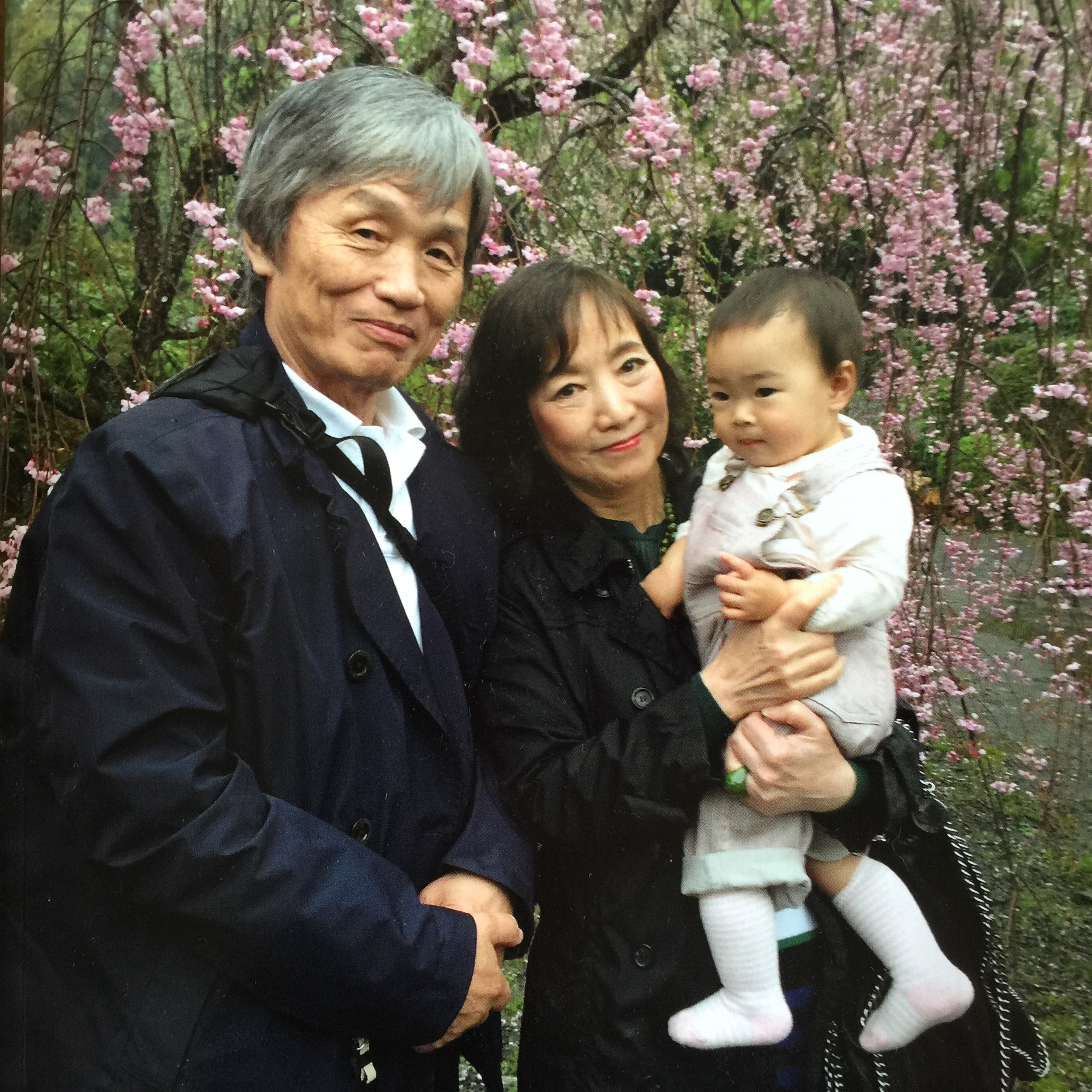 Dr. Sagawa, and his wife Hisako (久子), and his granddaughter Nika (ニカ)